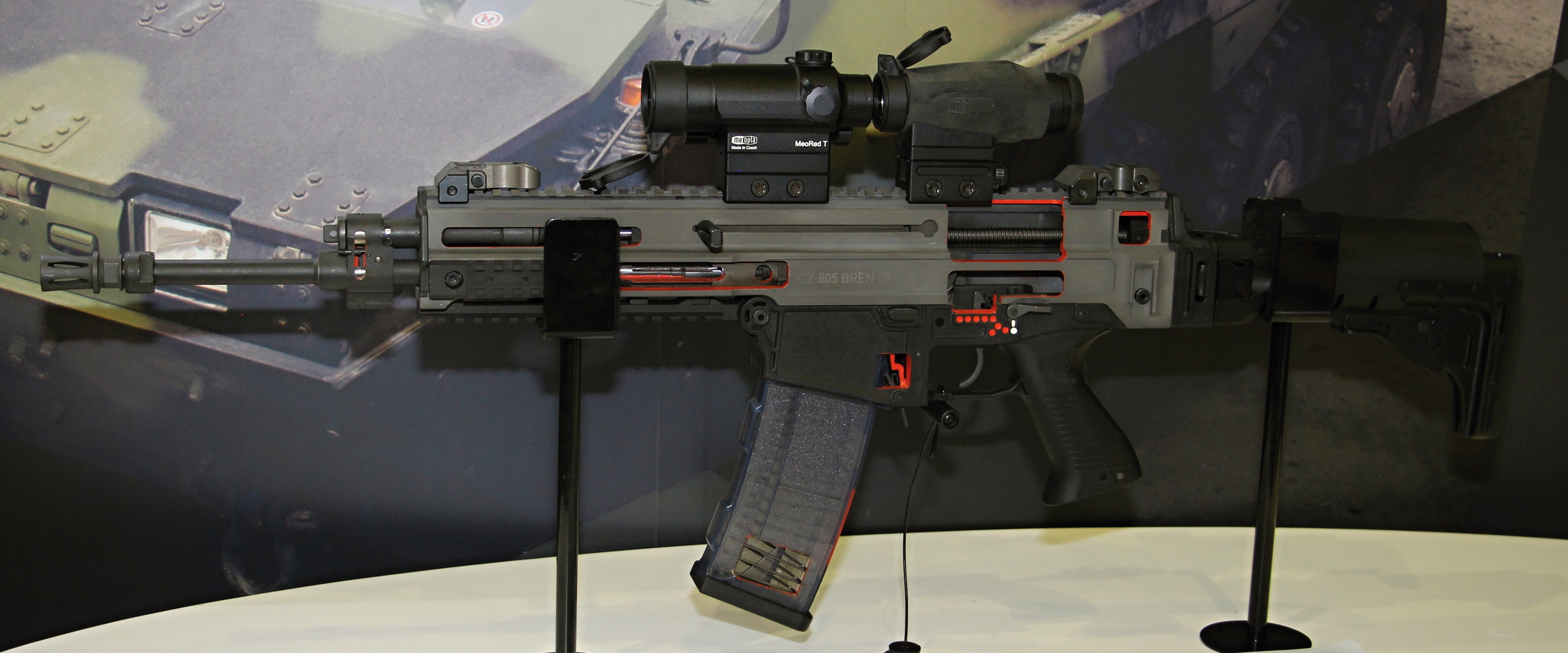 CZ 805 BREN assault rifle cutaway with Meopta MeoRedT and MeoMag 3 sights. IDET 2017, Brno Exhibition Center, Czech Republic.